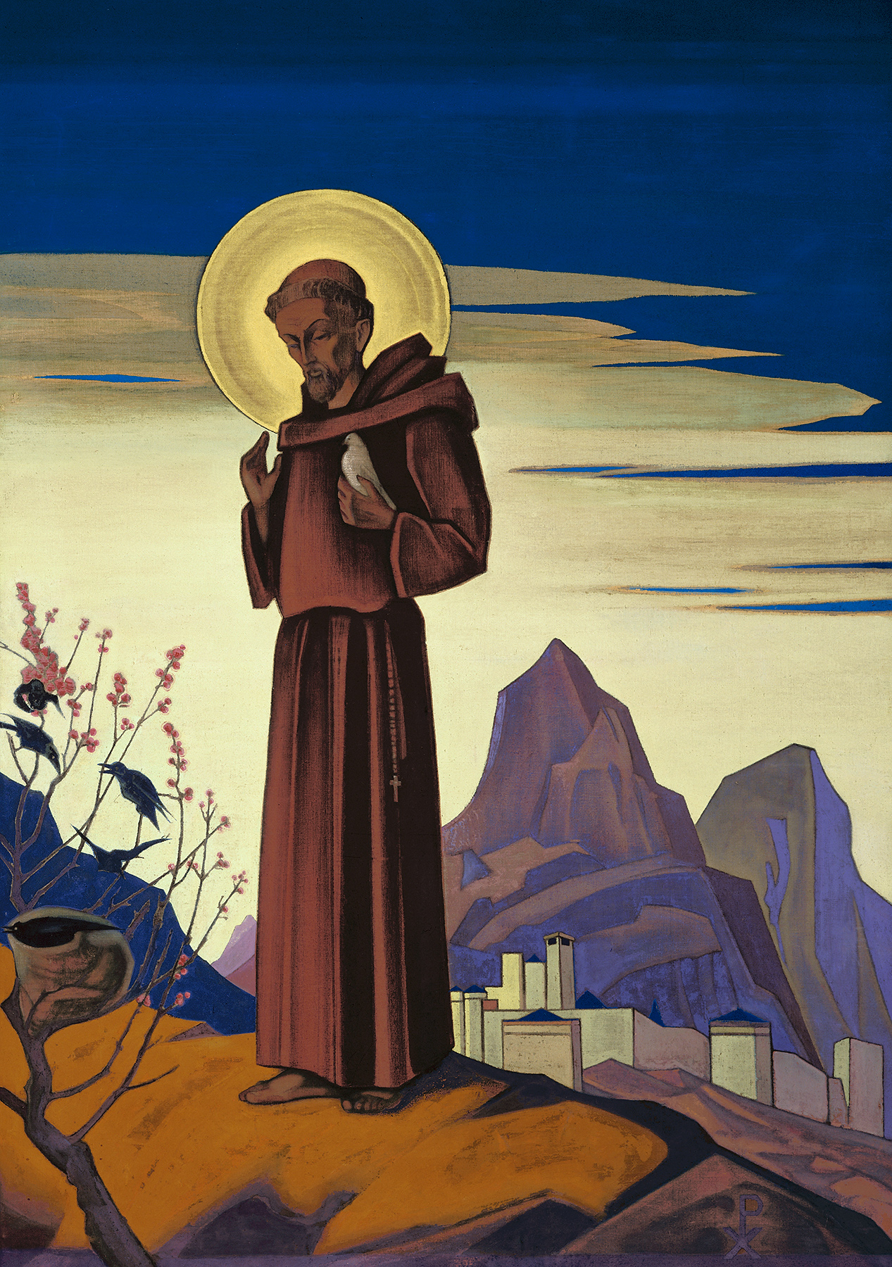 Nicholas Roerich "St. Francis. 1932. Tempera on canvas. 153,5 × 107 cm